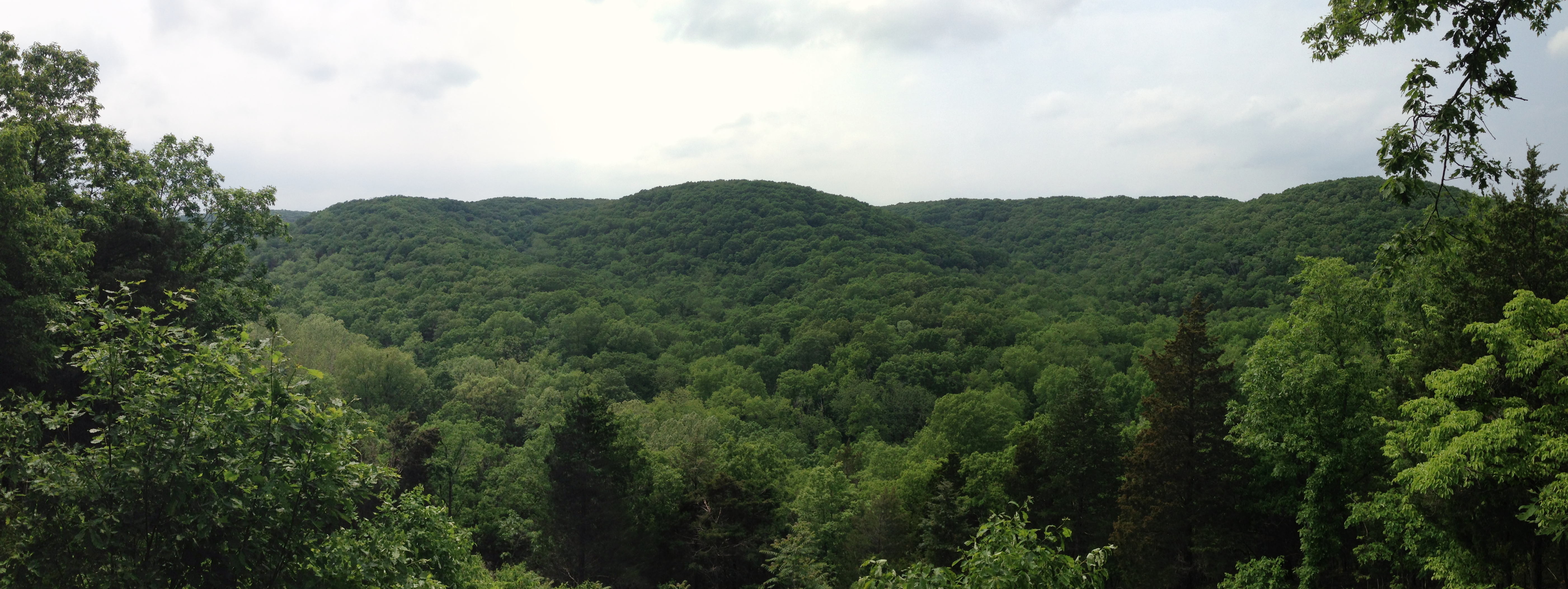 The overlook along the Overlook Trail in Greensfelder County Park, Missouri.